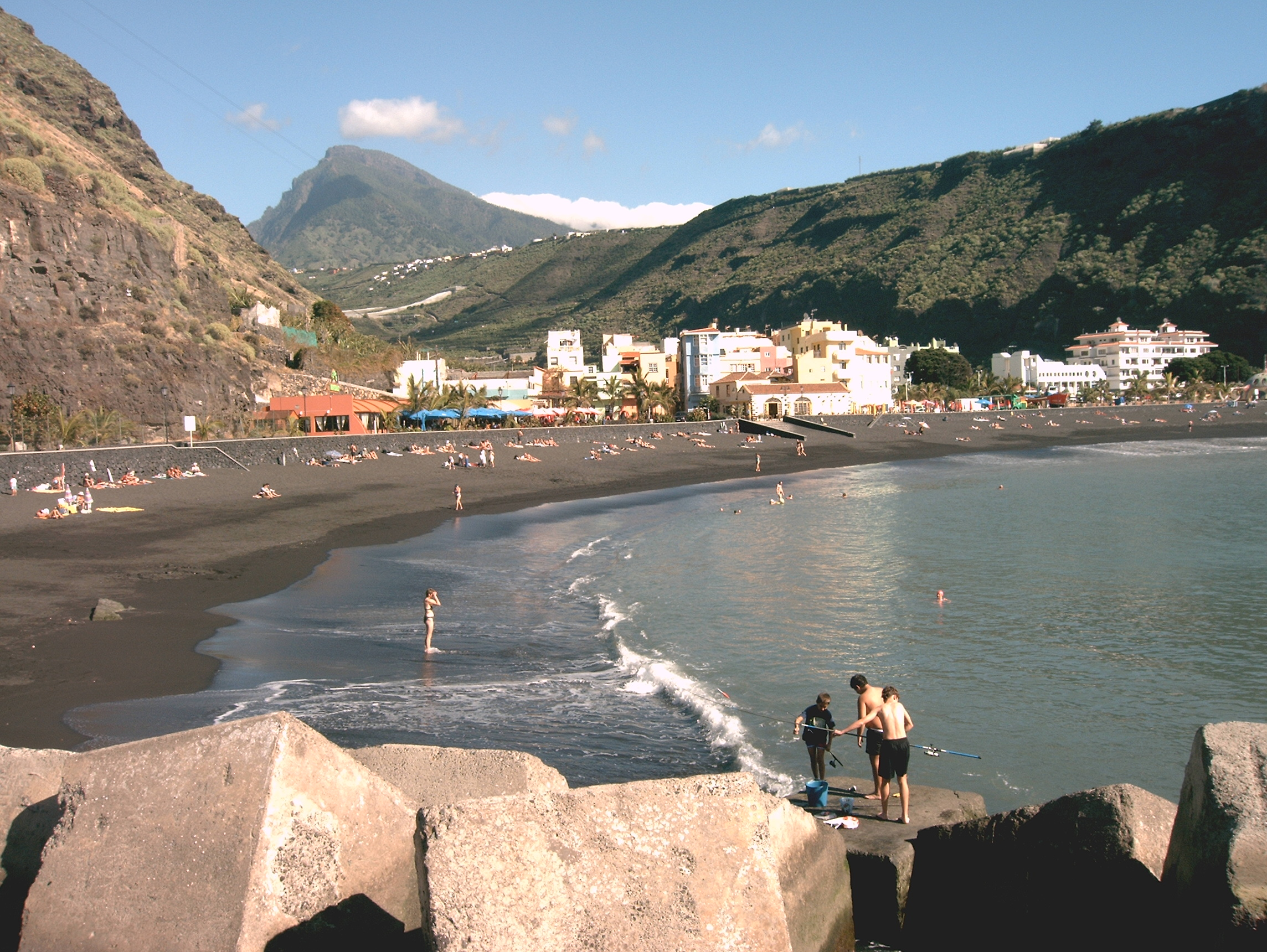 Beach of Puerto de Tazacorte